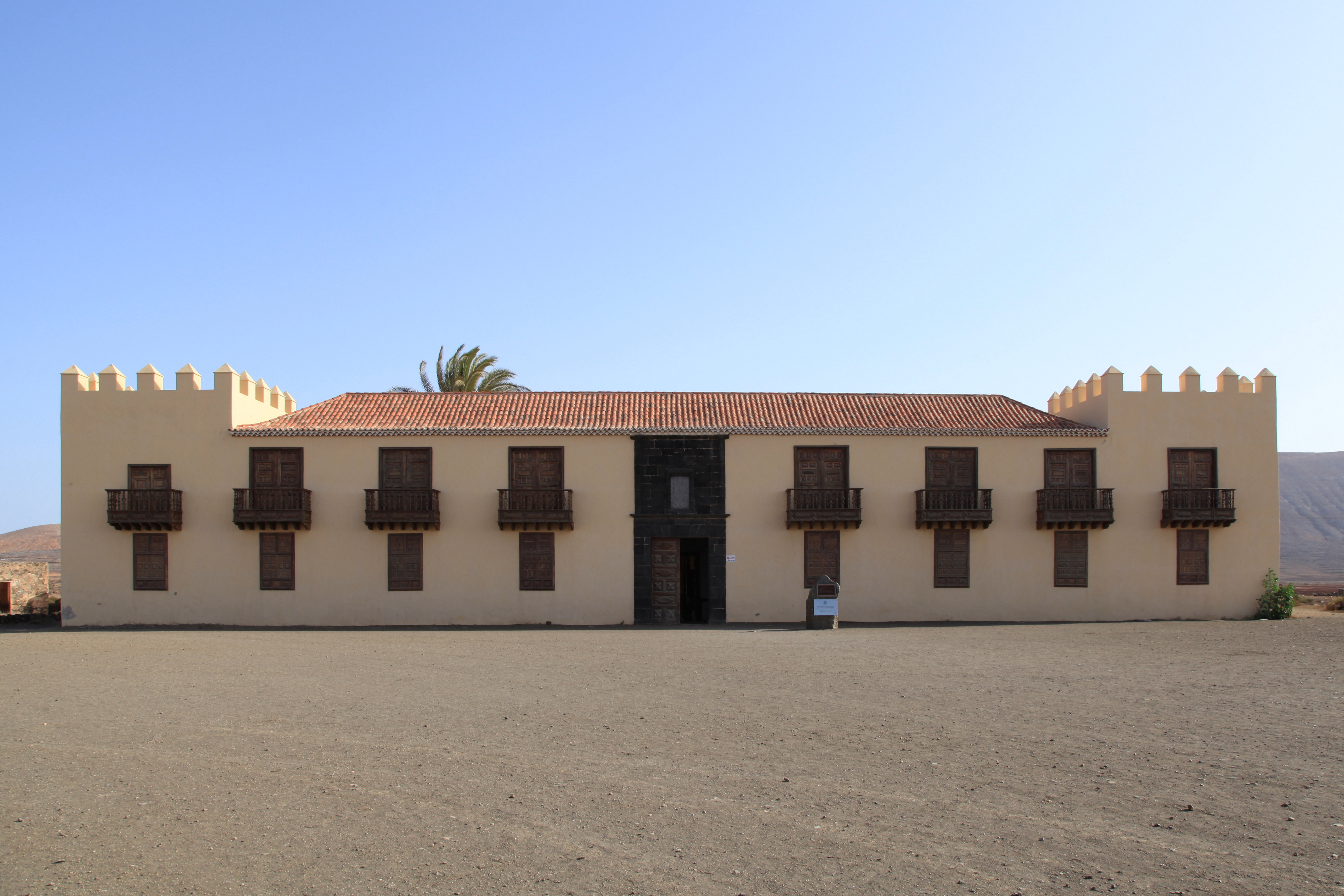 Casa de los Coroneles in La Oliva, Fuerteventura, Canary Islands